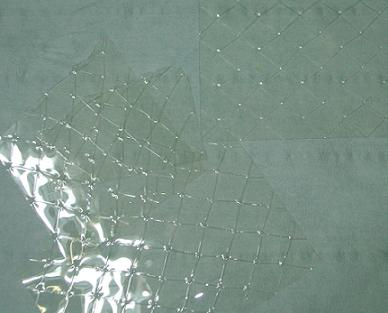 Gelatin